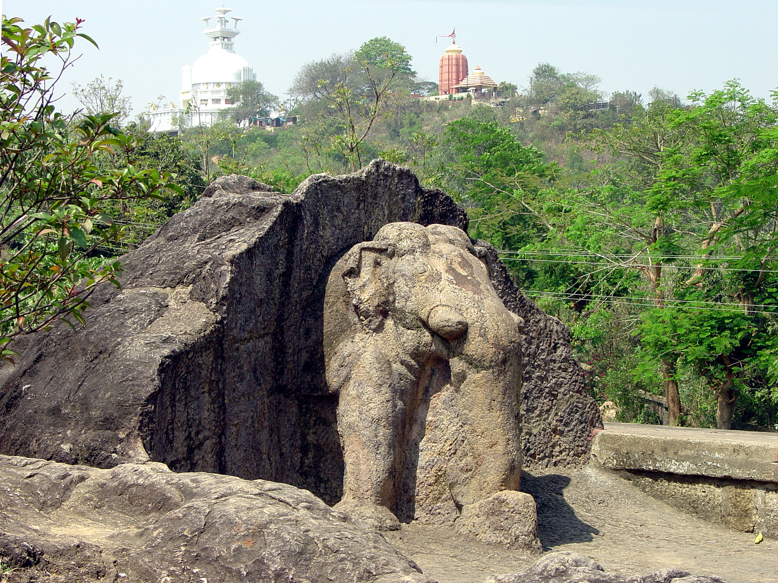 Rock Edict of Ashoka, ca. 250 BC. Dhauli, near Bhubaneshvar Dhauli is located in the ancient territory of Kalinga, now the state of Orissa, which the emperor Ashoka Maurya conquered with appalling loss of life in about 260 BC. Thereafter Ashoka repented of the violence which he had done, and converted to Buddhism. He expressed his remorse, and his intention to govern the kingdom according to the principles of his new faith, in a series of rock-cut edicts that he caused to be inscribed on over 100 monuments throughout his vast kingdom. Ashoka's Dhauli monument is seen in this photo. Its sculpted elephant faces east. His inscription is cut into the north face of the rock, below the sculpture. The hill temples in the background are modern: a white "peace" stupa built by the Japanese (l.), and a reconstructed Shiva temple (r.).